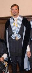 Former Captain Regent Alessandro Rossi of San Marino.